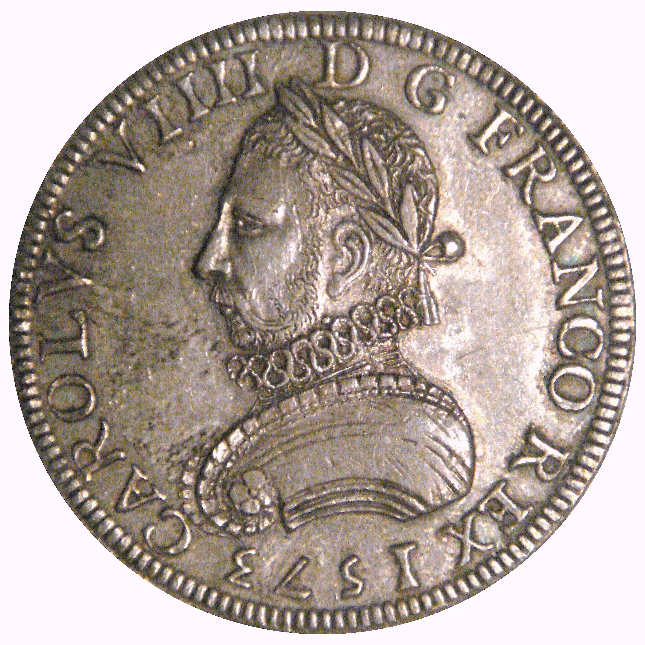 Charles_IX_1561